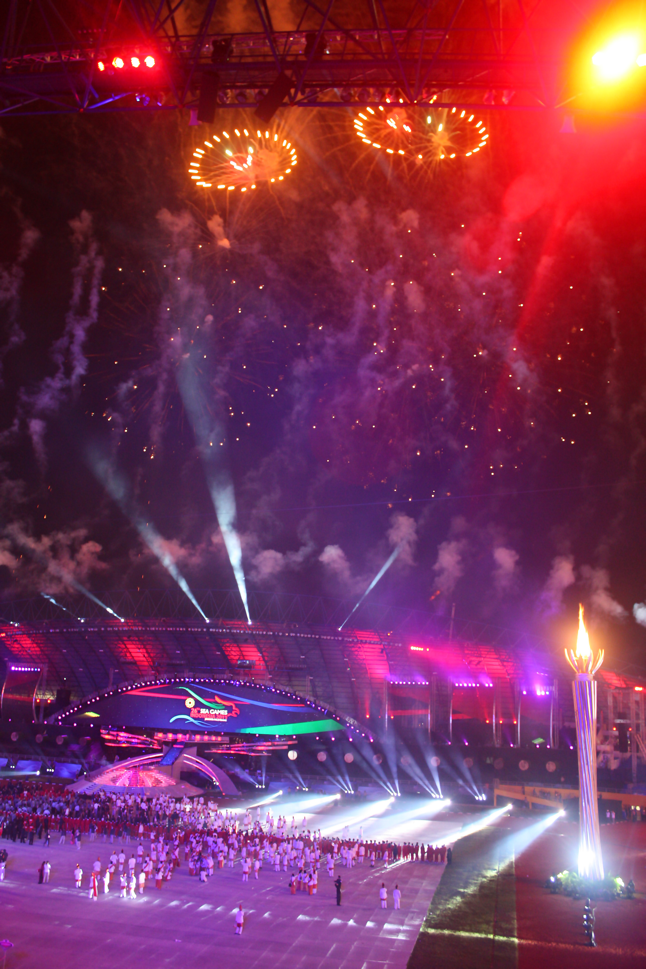 The fireworks after the torch lighting marked the beginning of XXVI Southeast Asia Games 2011 opening ceremony in Gelora Sriwijaya Stadium, Palembang, South Sumatera, Indonesia in auspicious date Friday, 2011-11-11.The largest Southeast Asia multi sport event is hosted in Jakarta-Palembang, Indonesia from 11 to 22 November 2011.